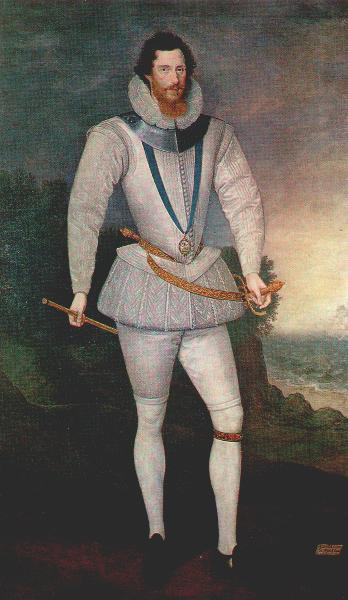 Robert Devereaux, Earl of Essex, oil on canvas, 211.2 x 127 (84 x 50 ins)